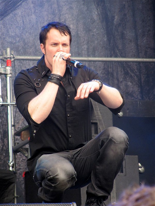 Tommy Karevik performing at the Bang Your Head Festival!!! 2012 (his third performance with Kamelot after the announcement that he will be the new lead singer).